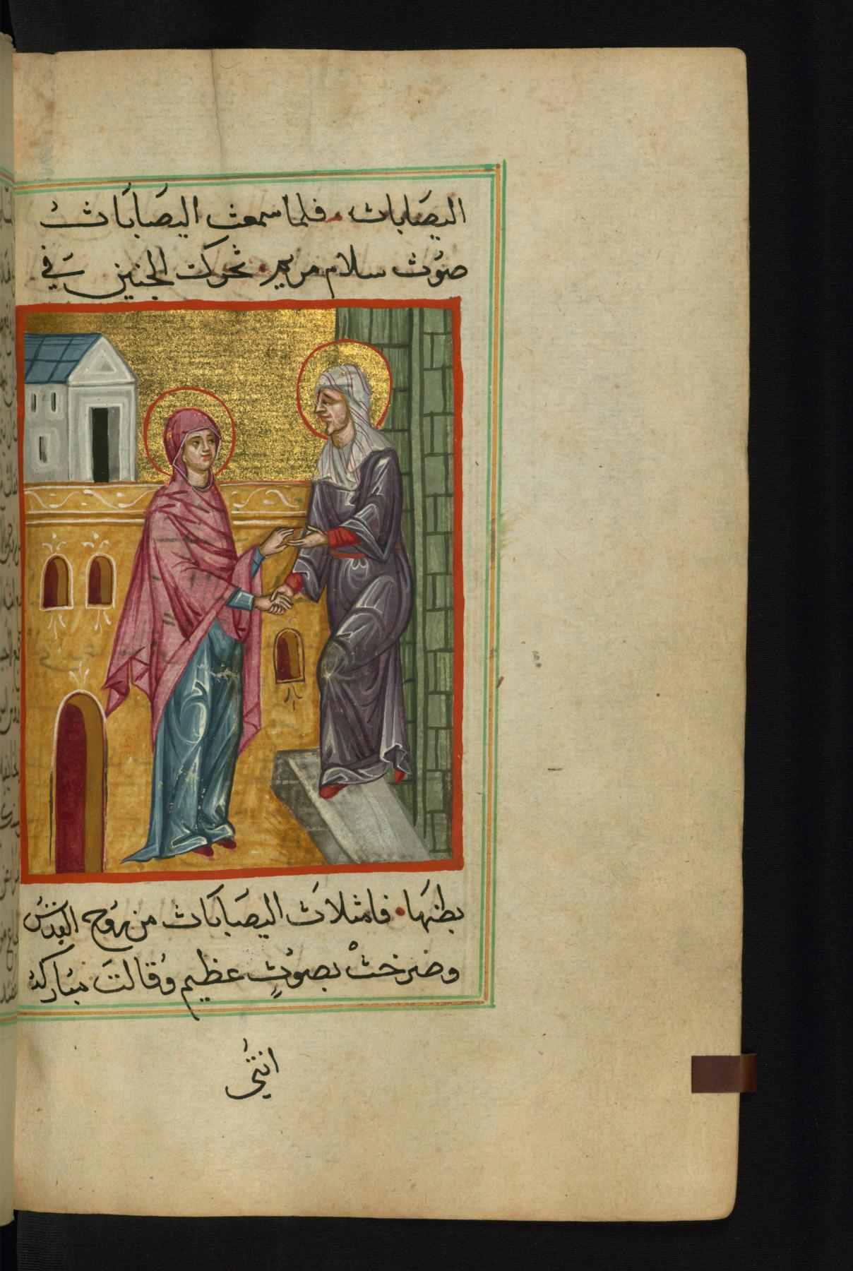 This folio from Walters manuscript W.592 depicts the visitation.